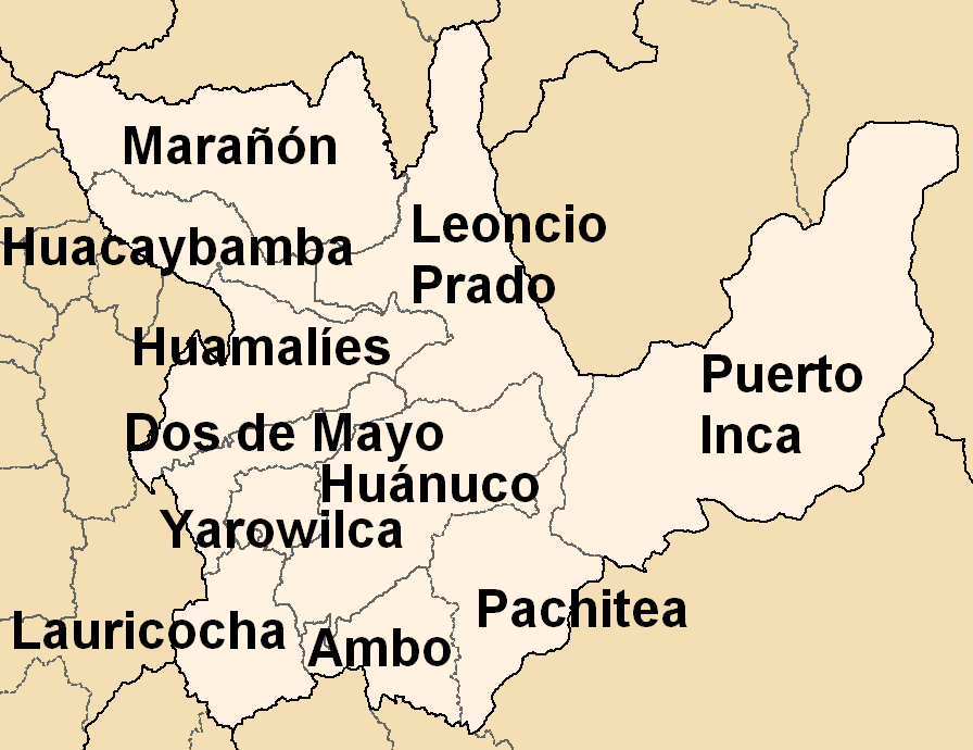 Provinces of the Huánuco region in Peru (Map)